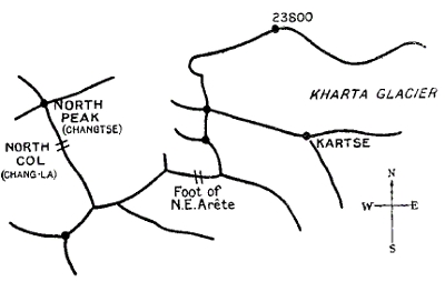 Mallory's revised sketch map. Page 217 from Howard-Bury, C. K. (1922). Mount Everest the Reconnaissance, 1921 (1 ed.). New York, Longman & Green